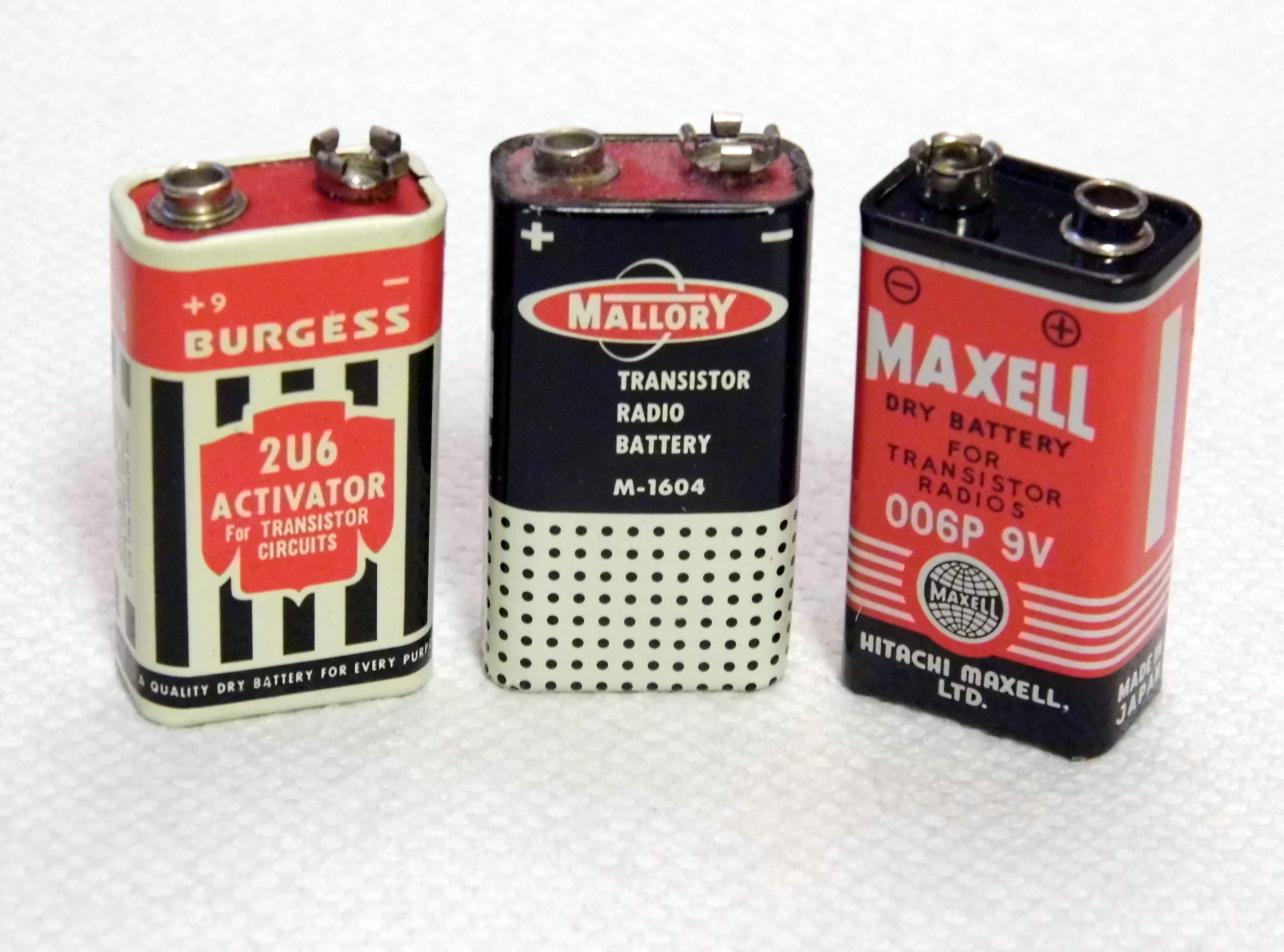 Vintage 9 Volt Transistor Radio Batteries - Burgess, Mallory and Maxell